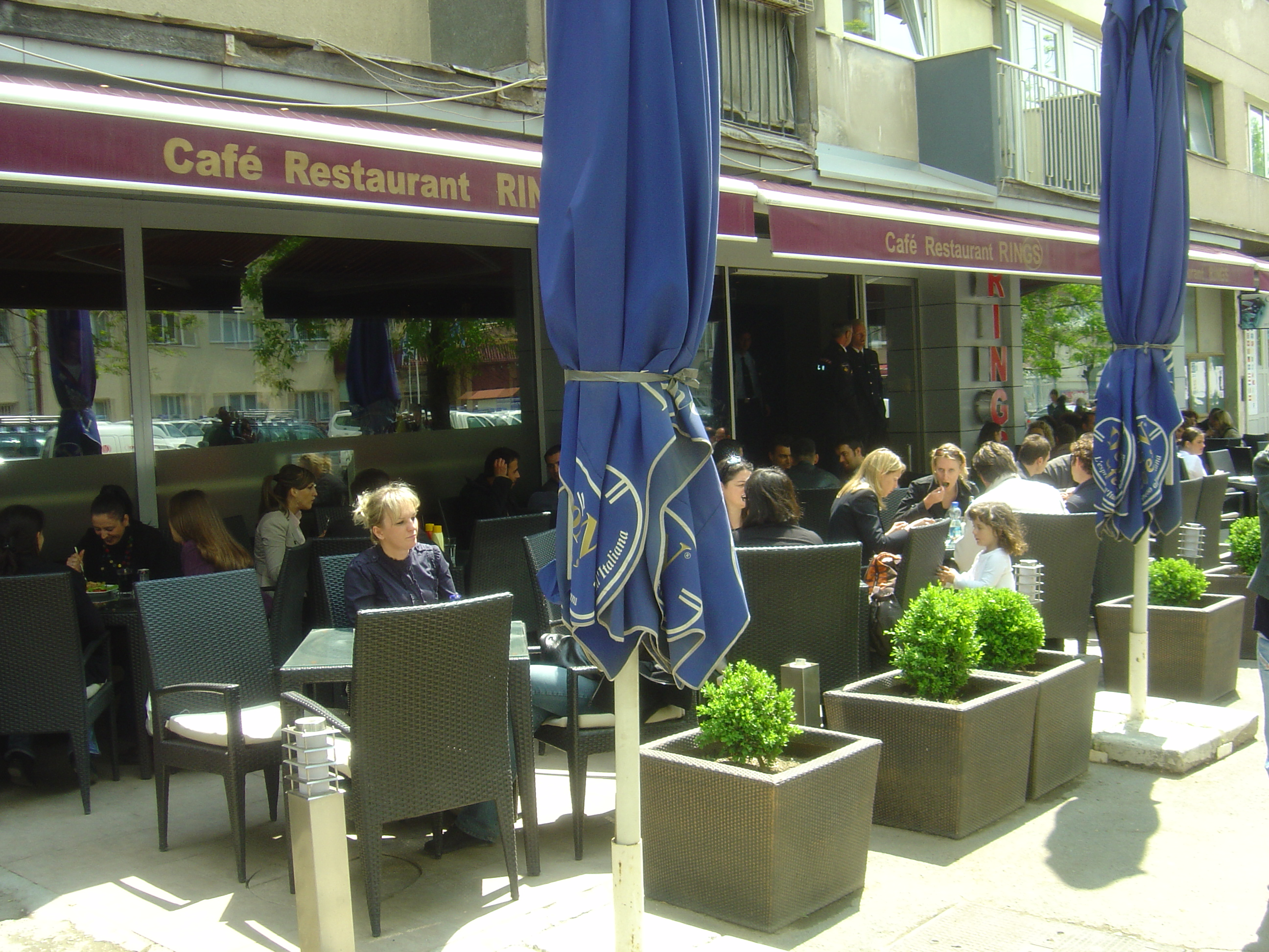 Café in Pristina, Kosovo